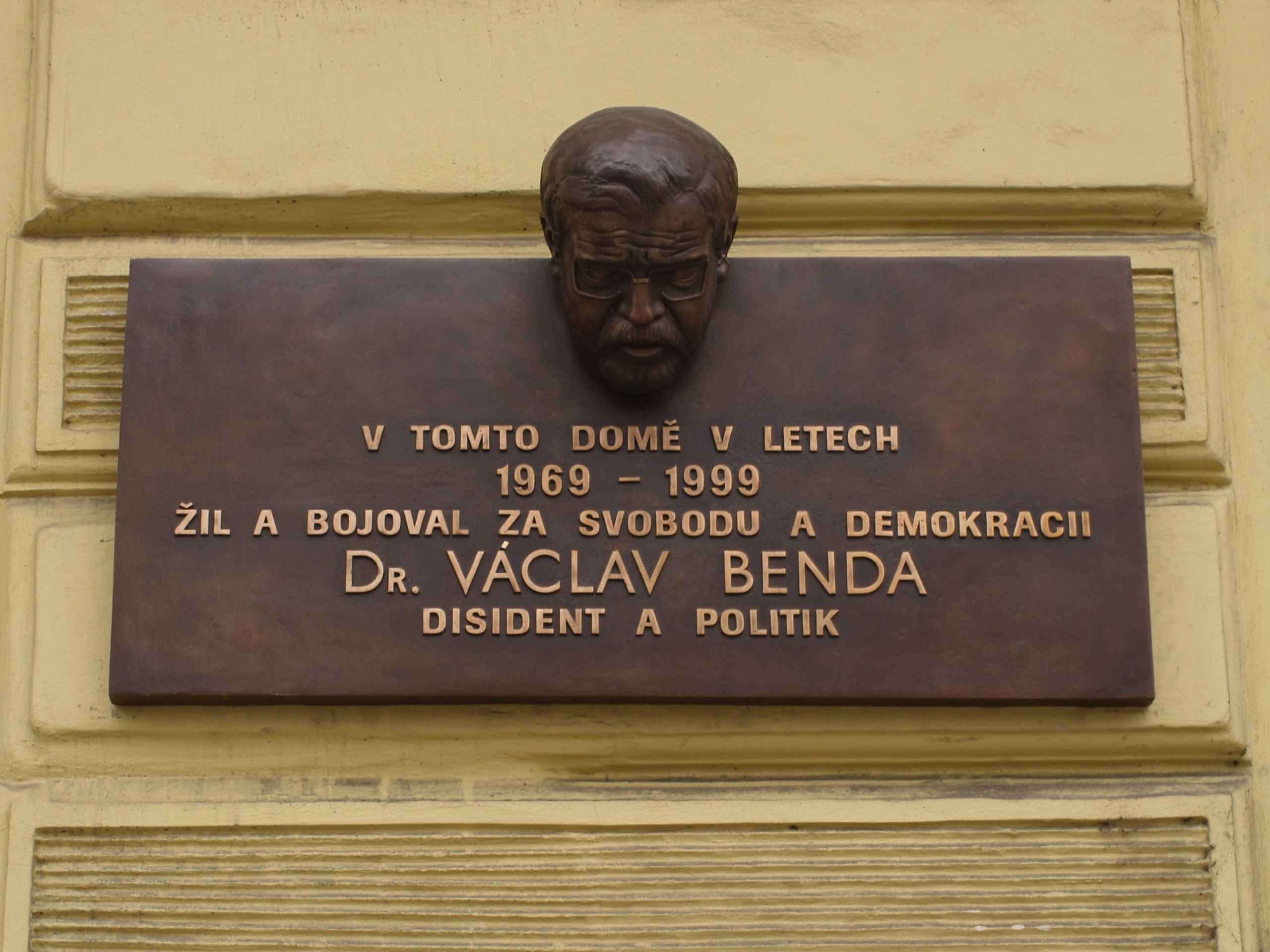 Plaque & bust of Czech political activist, mathematician and philosopher Václav Benda; located on the Charles Square in the New Town of Prague, Czech Republic; inaugurated 2009-NOV-17, sculptor Peter Oriešek